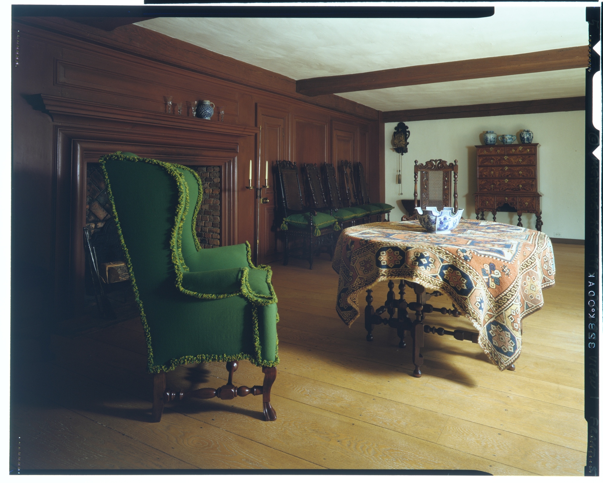 American; Wentworth house; Architecture